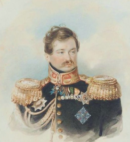 The portrait of Russian prince Nickolay A. Dolhorukoff (1792-1847)